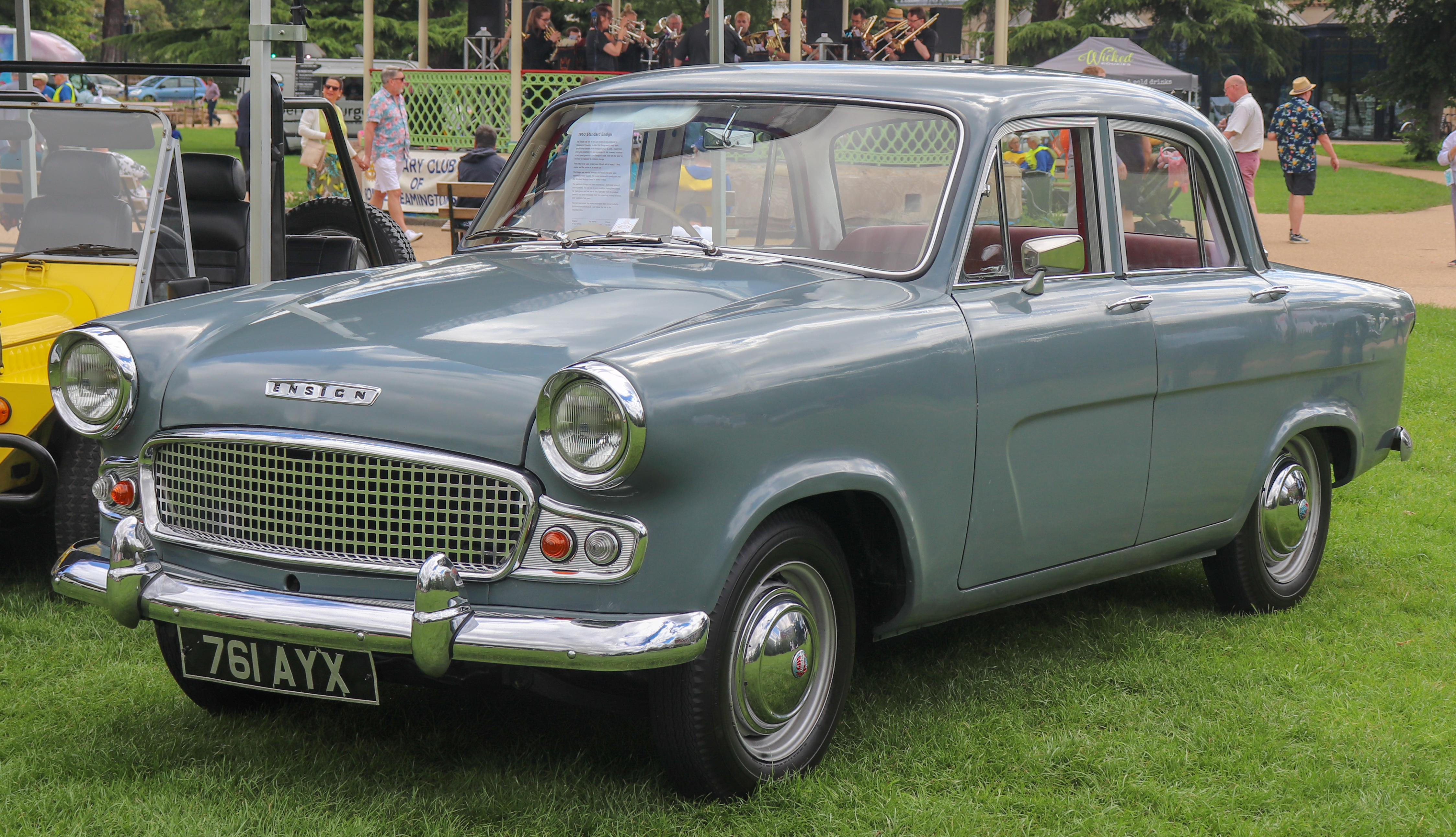 1960 Standard Ensign 1.7 Front Taken at the Cars At The Spa 2019, Leamington Spa